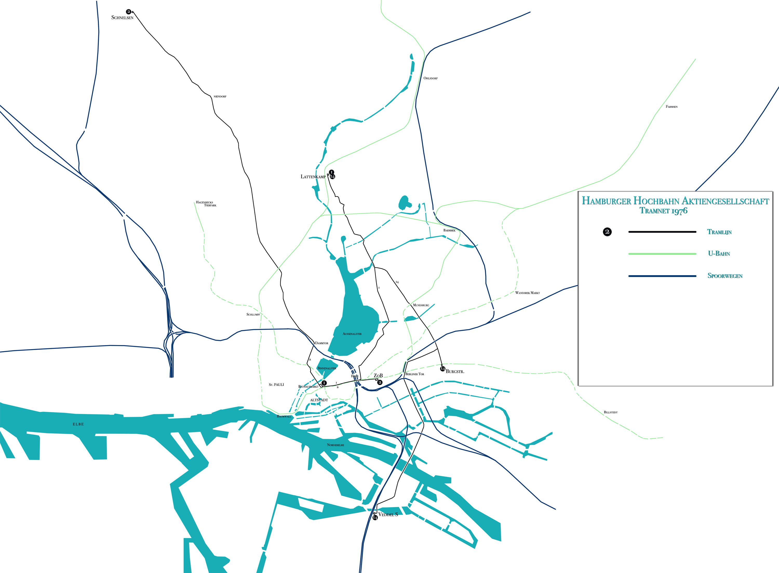 Tramway network Hamburg, Germany, 1976